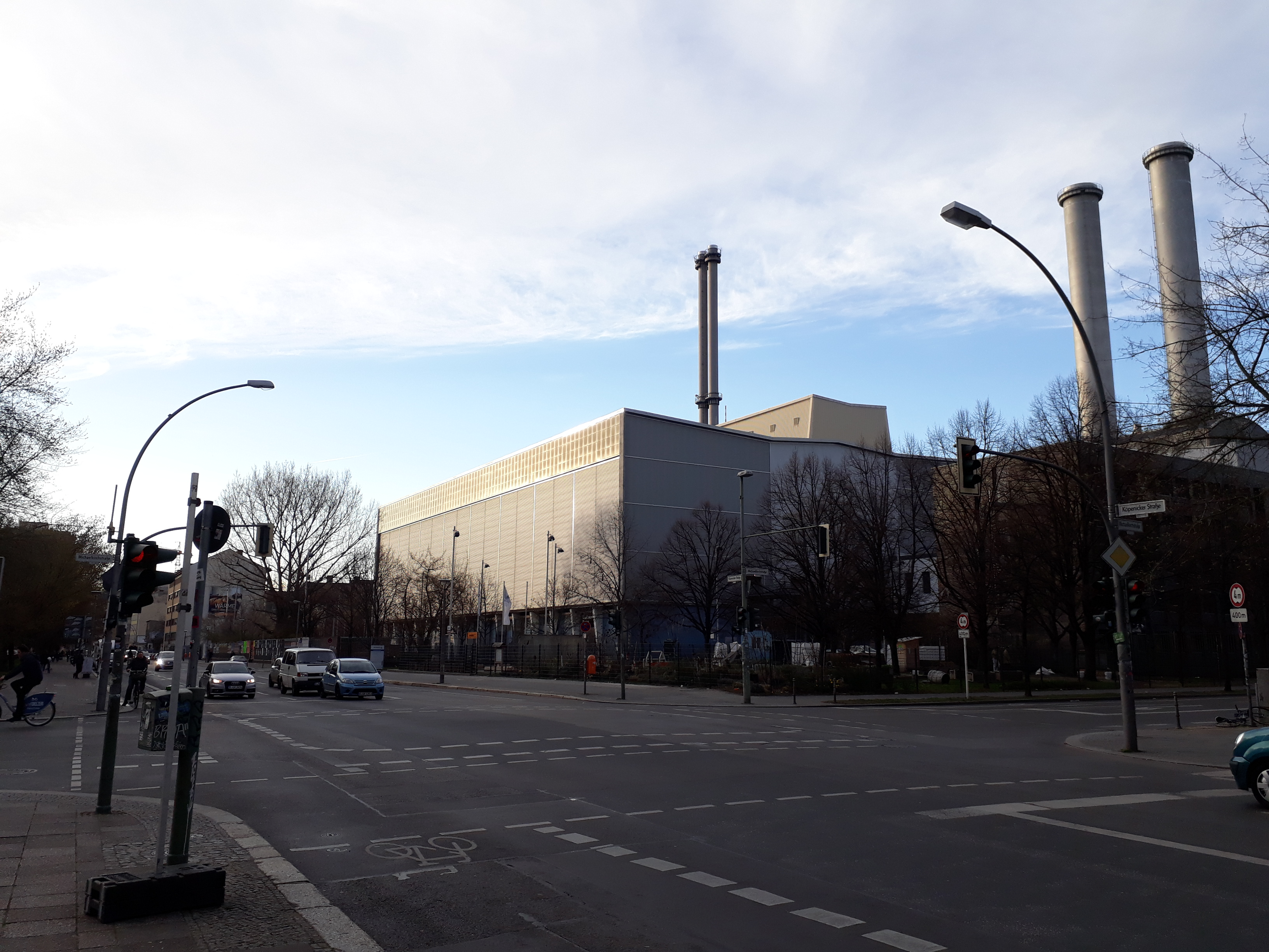 Building of the Tresor from Köpenicker Straße